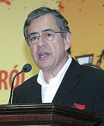 The brazilian journalist Paulo Henrique Amorim giving a lecture at the 1st National Conference of Social Communication (Bahia, Brazil), 2009.